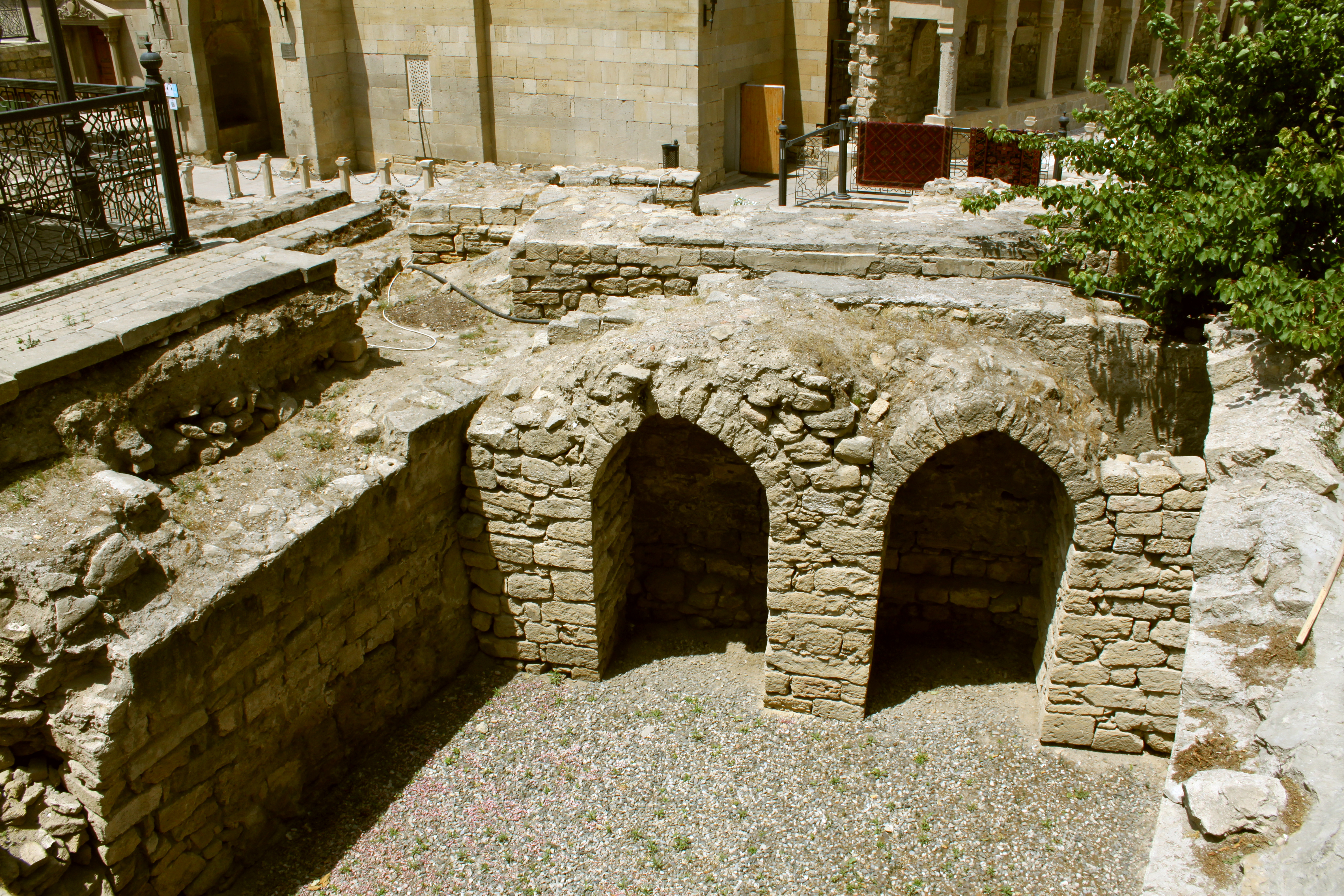 Archeological site near Maiden Towers of Baku; Medieval tekke in Ichery sheher. Remnants of the Baba Kuhi Bakuvi Mosque